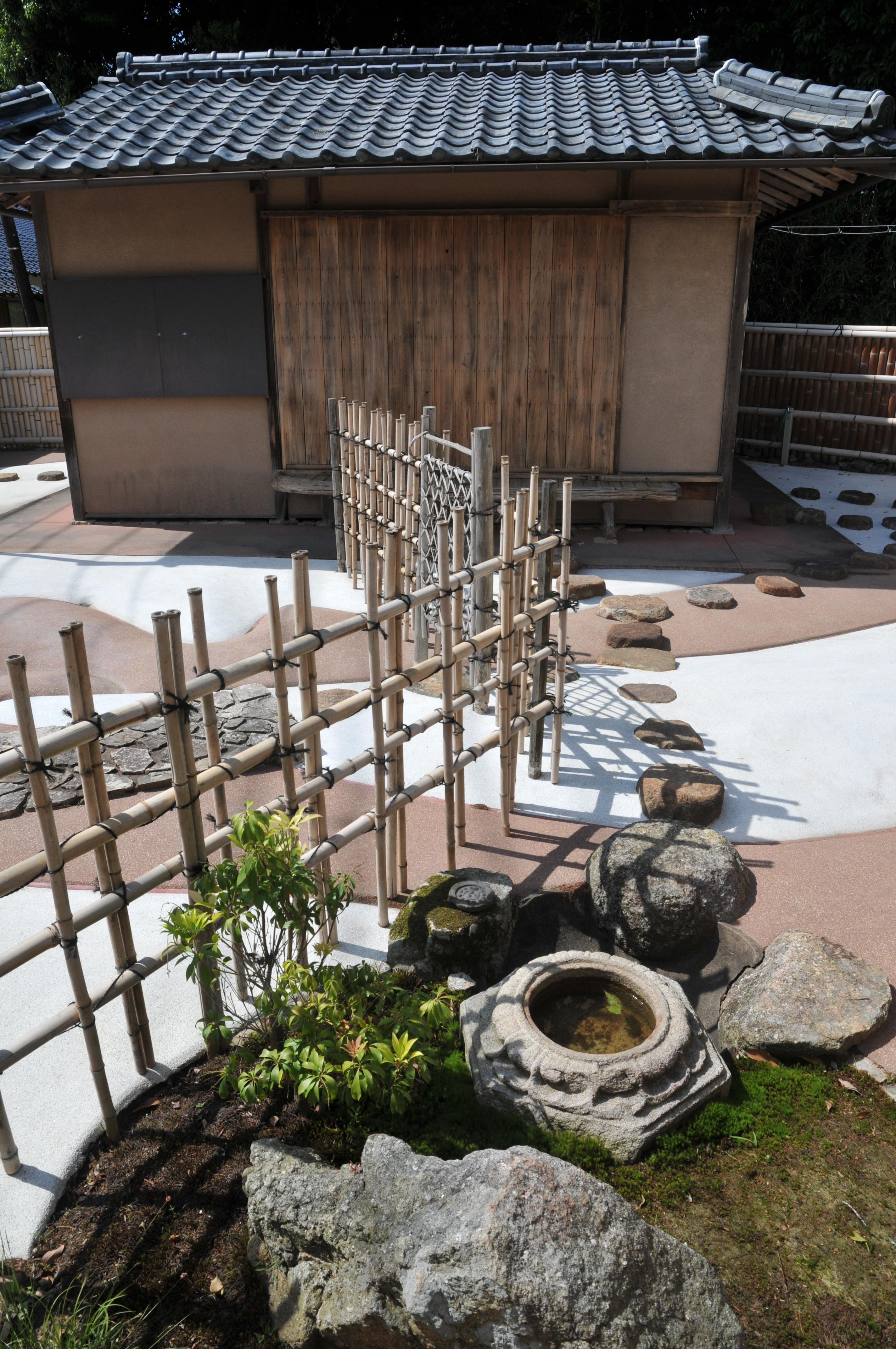 Tsukubai and Tea ceremony room, Tenrai-an